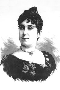 Portrait of Violet Melnotte (1855-1935) in about 1892